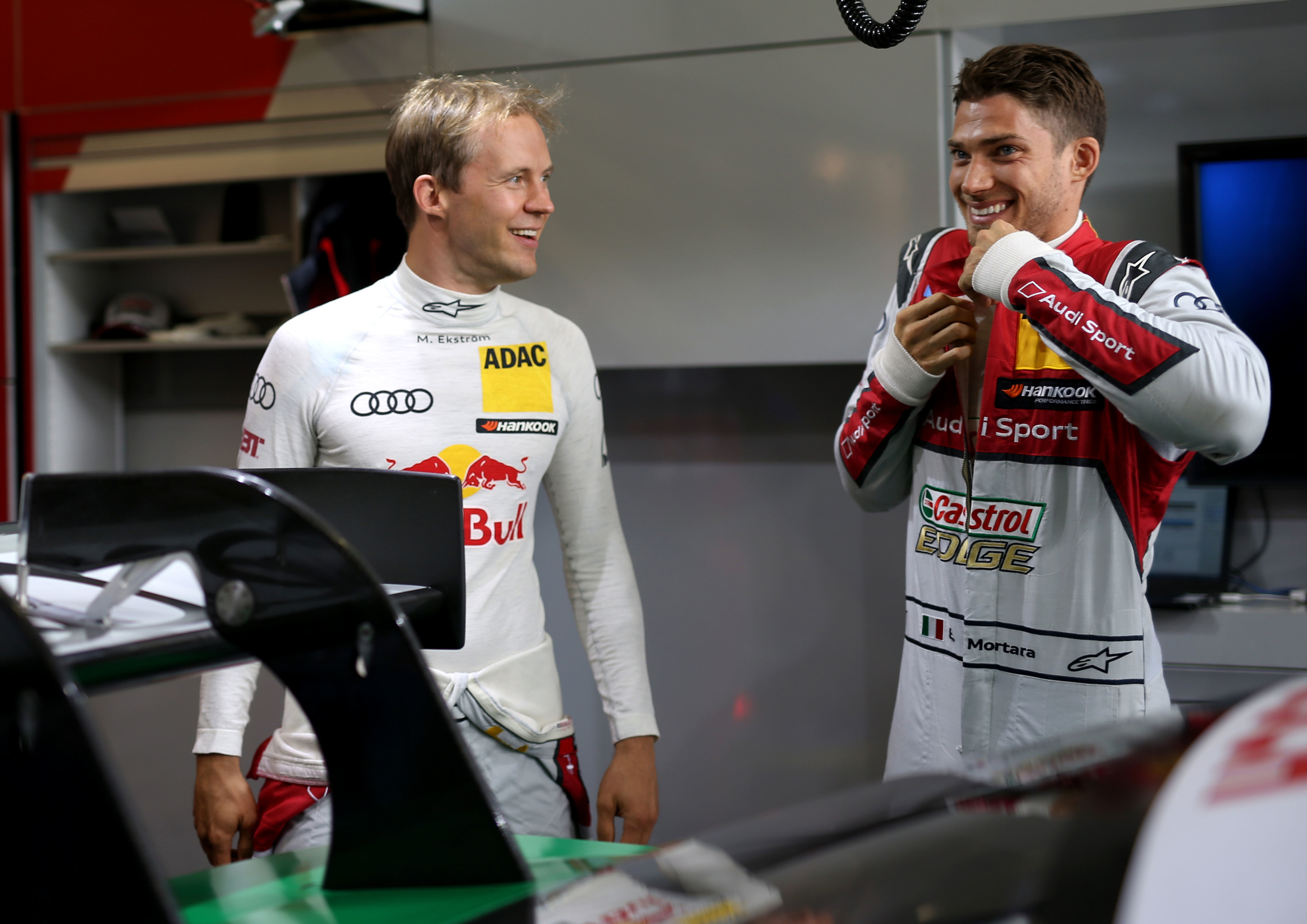 Mattias Ekström (left) and Edoardo Mortara at Nürburgring, Round 7 of the 2016 DTM season.